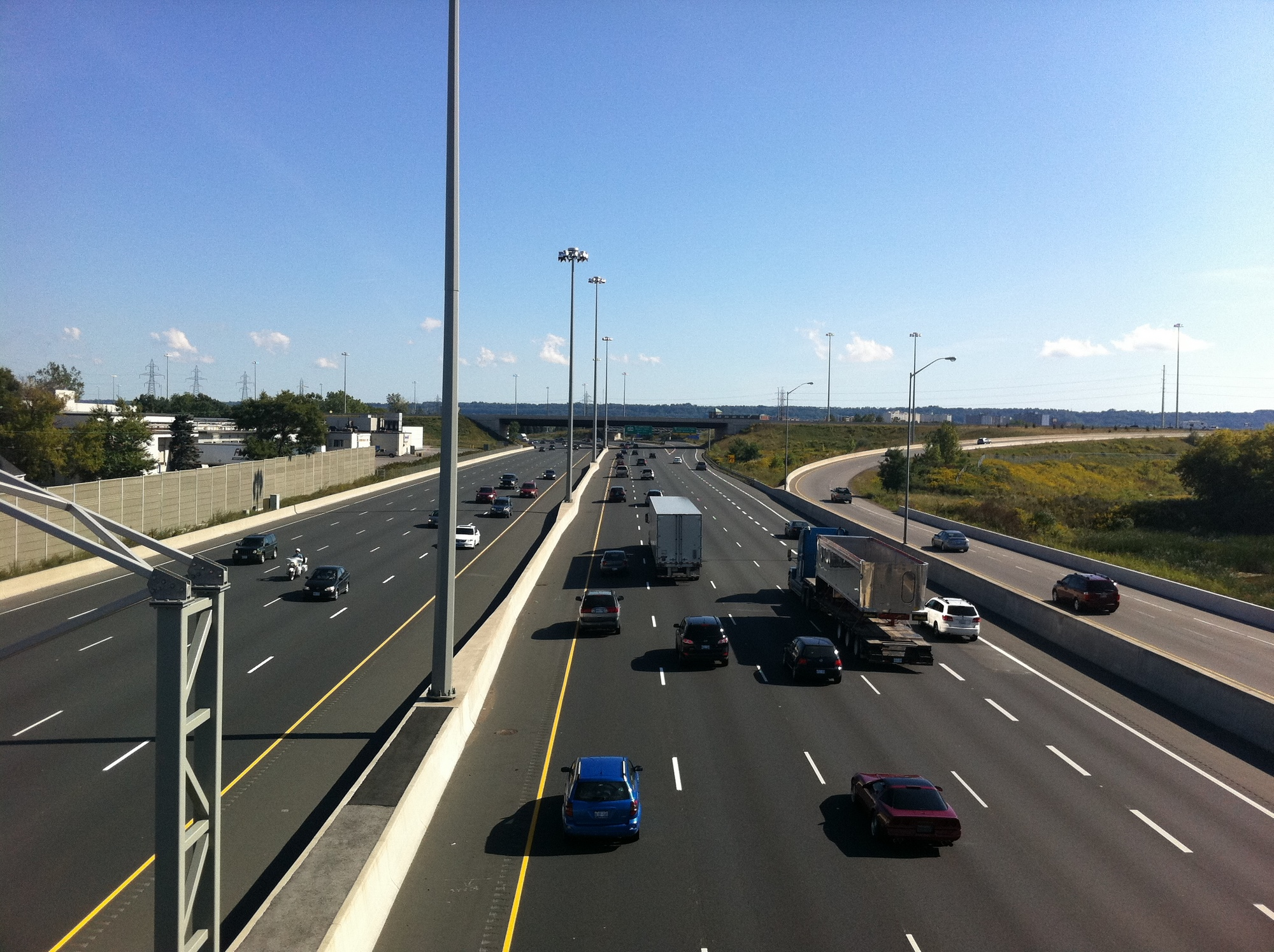 Queen Elizabeth Way in Hamilton, Ontario.